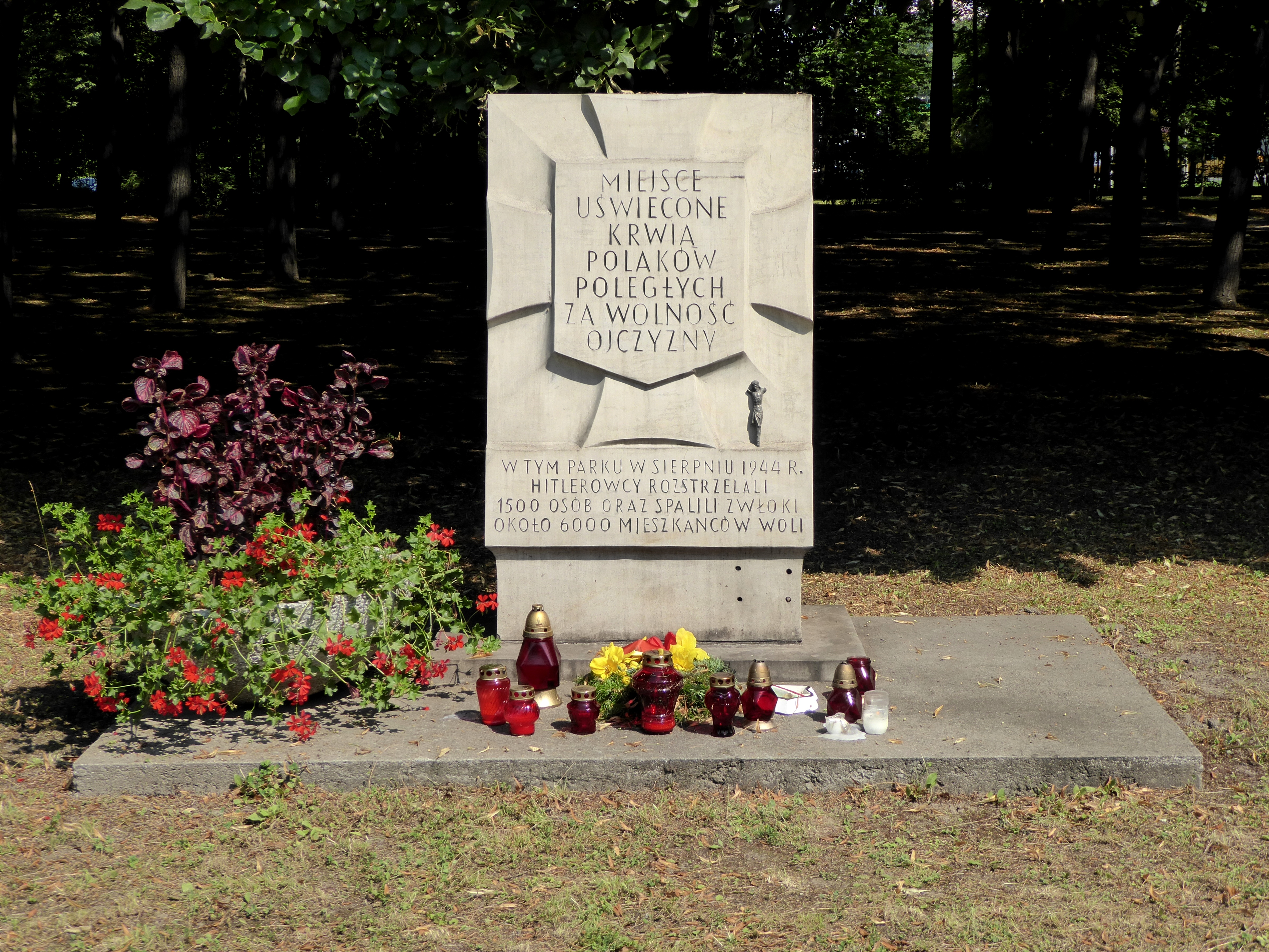 A "Tchorek plaque" in the park named after General Józef Sowiński - this plaque commemorates the mass murder of 1500 people who were killed here by the Germans during the Wola massacre. The bodies of 6000 victims of the massacre were also burned at this location. The SS press-ganged some of the surviving residents of Wola into the Verbrennungskommando ("burning detachment"), who were forced to burn the corpses and homes of the victims. The men put to work in this "detachment" were also later executed. The Wola massacre: Tchorek plaques